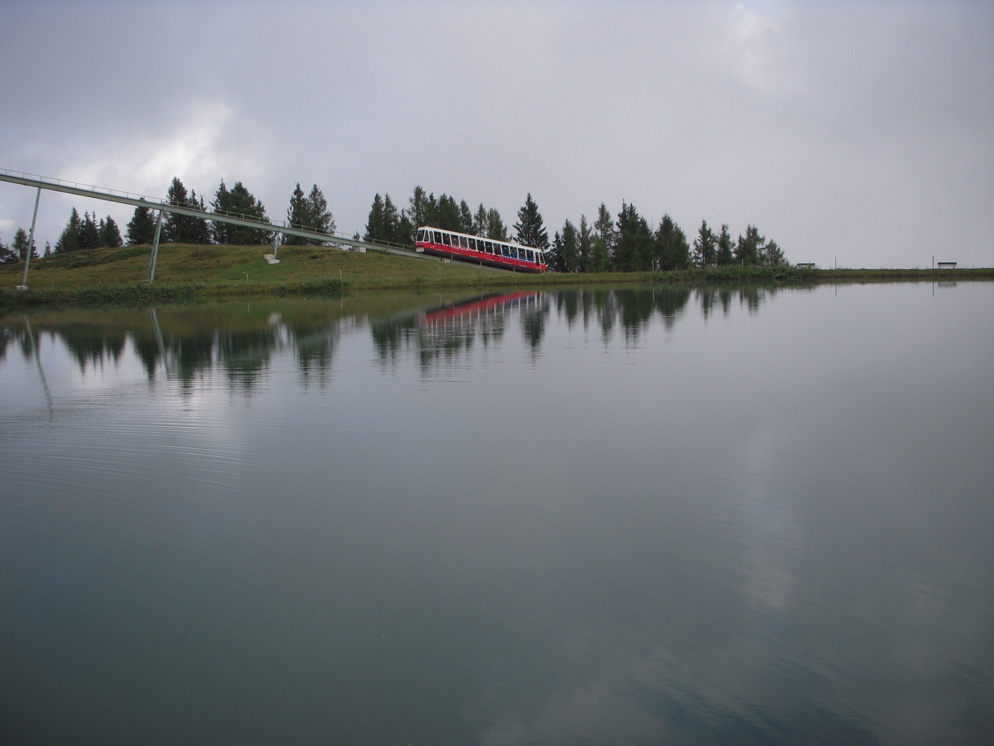 The funicular Hartkaiserbahn in Ellmau, Tirol, Austria. August 8, 2012.